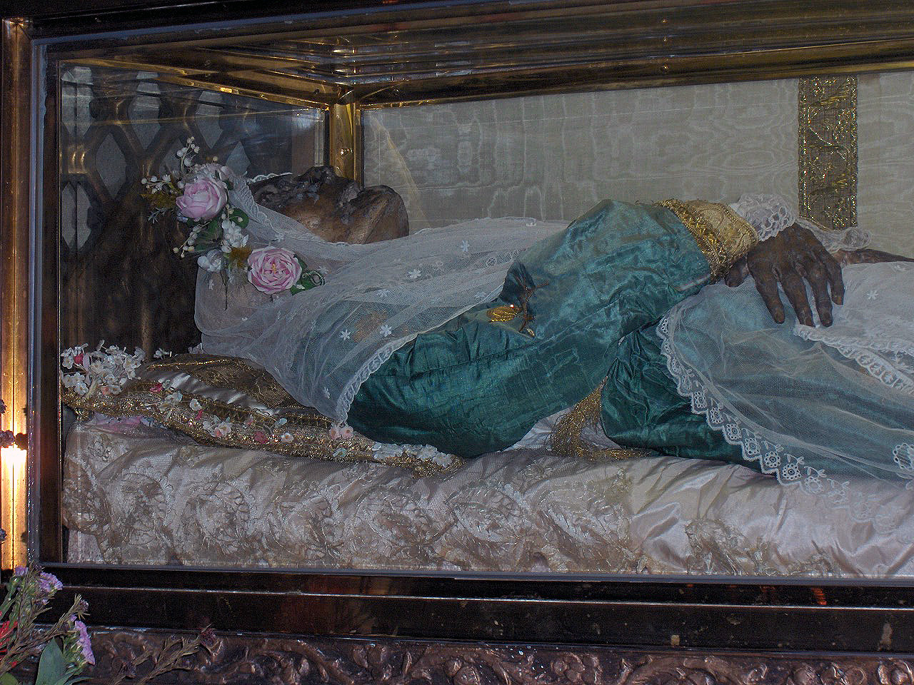 incorrupt body of St. Zita in the basilica of San Frediano; Lucca, Italy Own photo - photo made on 10 October 2005